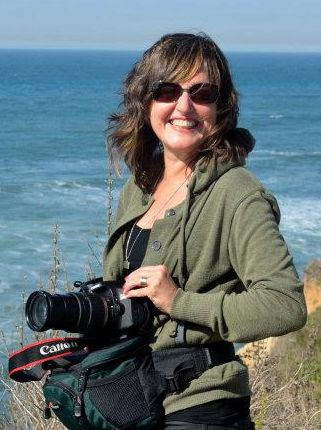 Marion Strecker, Journalist and Photographer (California, USA, 2011)